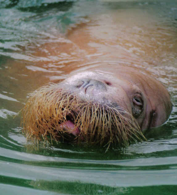 Tanja (* ca. 1974; † 16. Februar 2007 in Hannover) was a female walrus (Odobenus rosmarus), which lived in the Hannover Zoo. Last walrus in a German zoo.